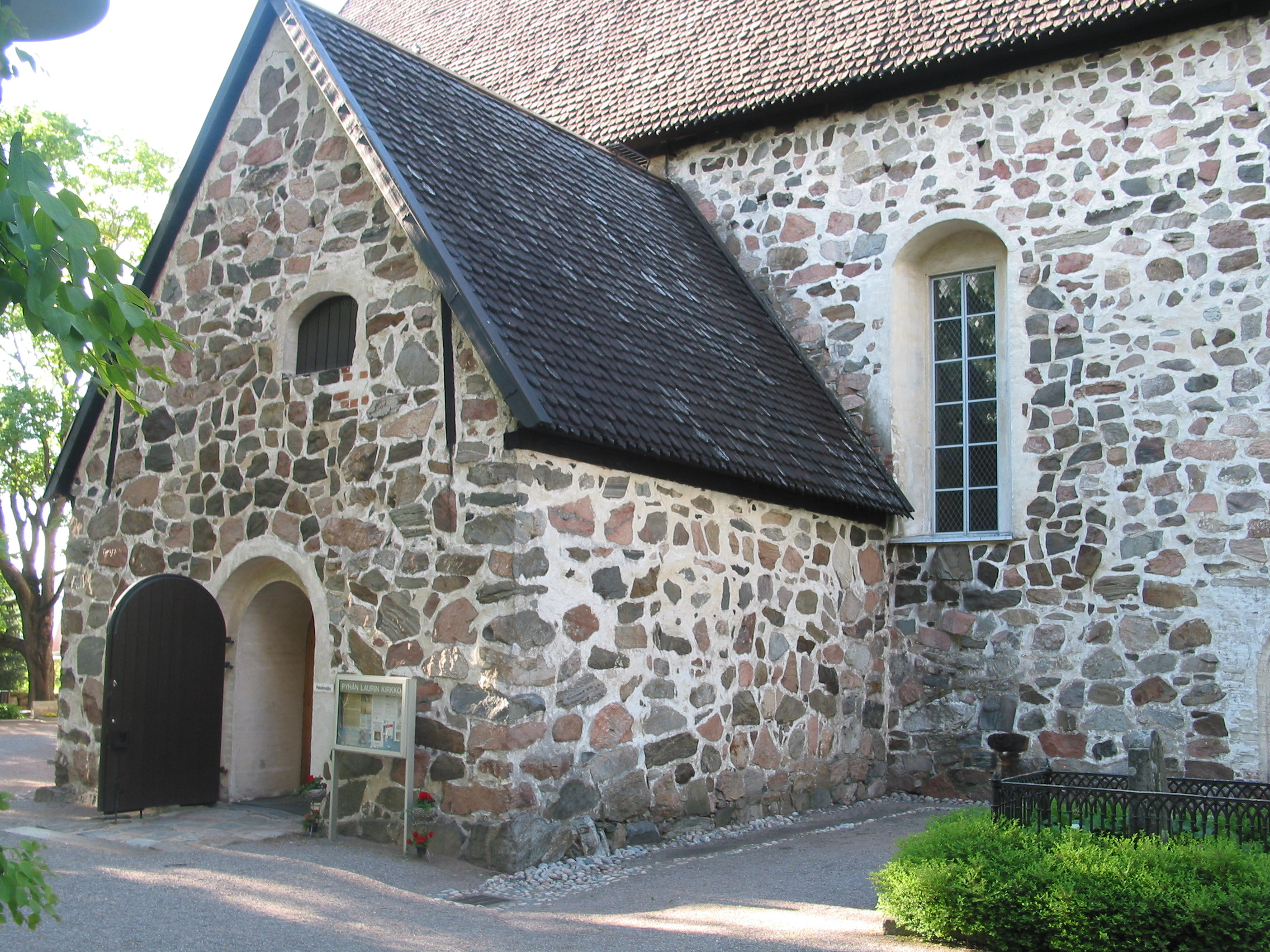 Church armoury in Lohja Church